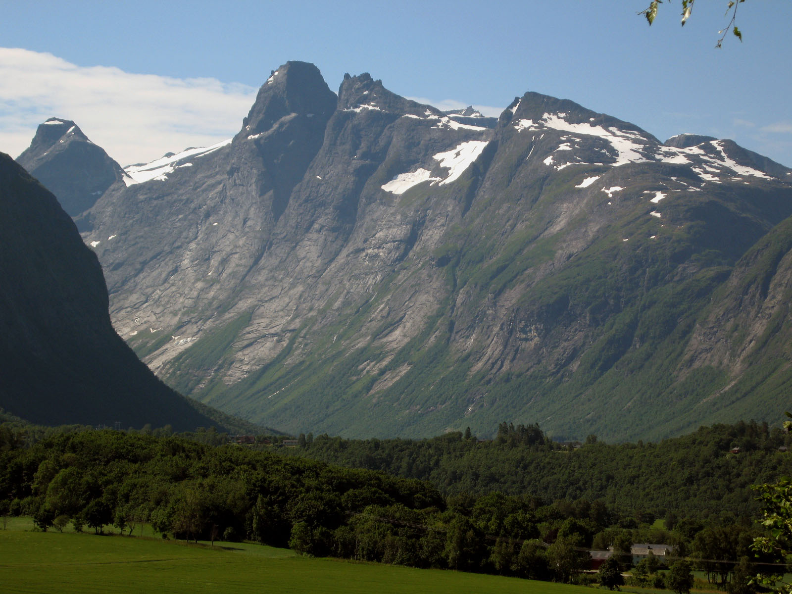 Isterdalen seen from the north.